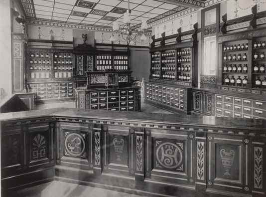 Interior of Sankt Hans Apothek (Saint John's Pharmacy) in Odense, Denmark, 1903, representative of the Skønvirke style.